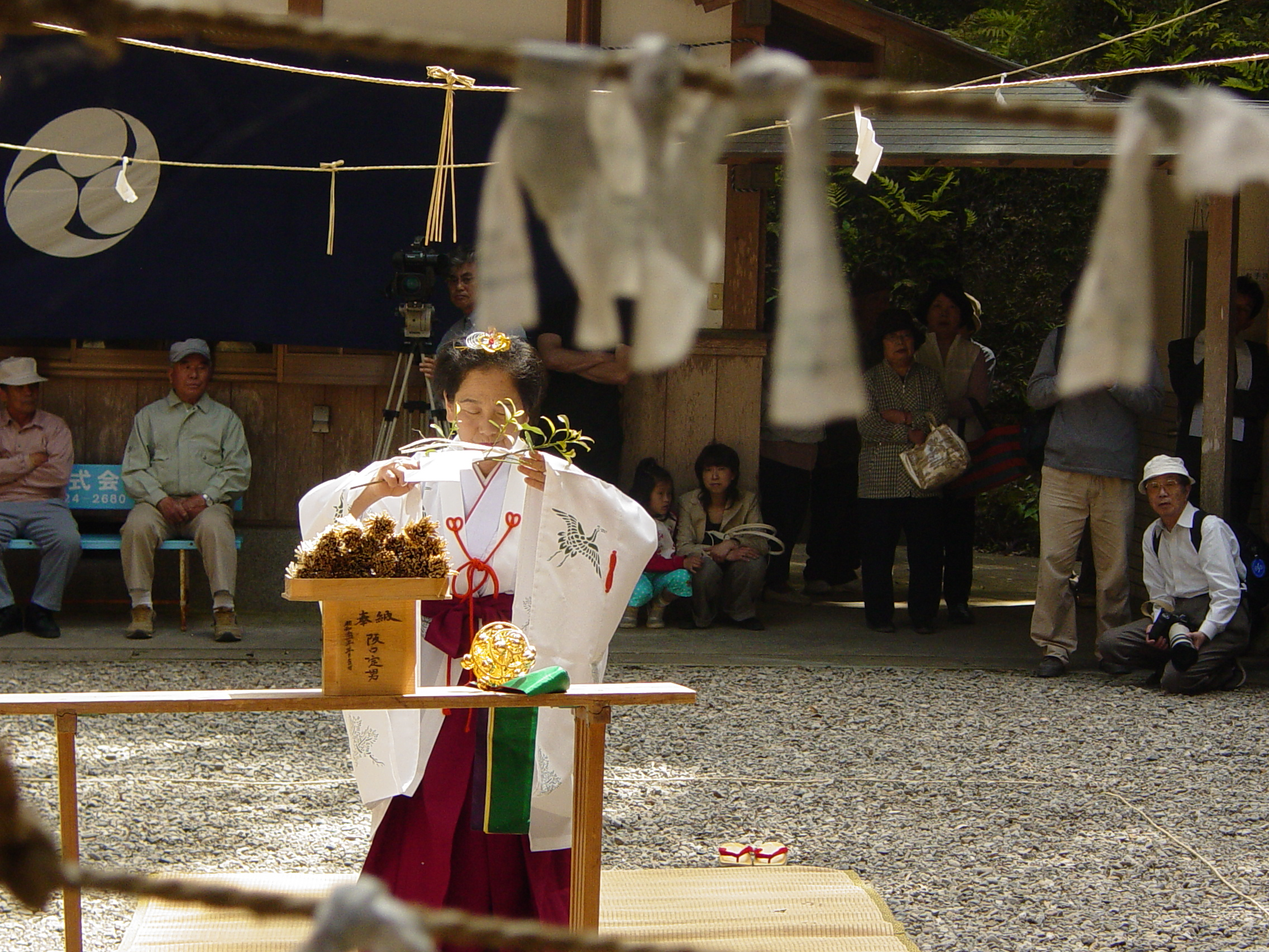 The head Miko of the Inari shrine in Tanabe, Wakayama making an offering to the kami Inari during a festival for the upcoming rice season.